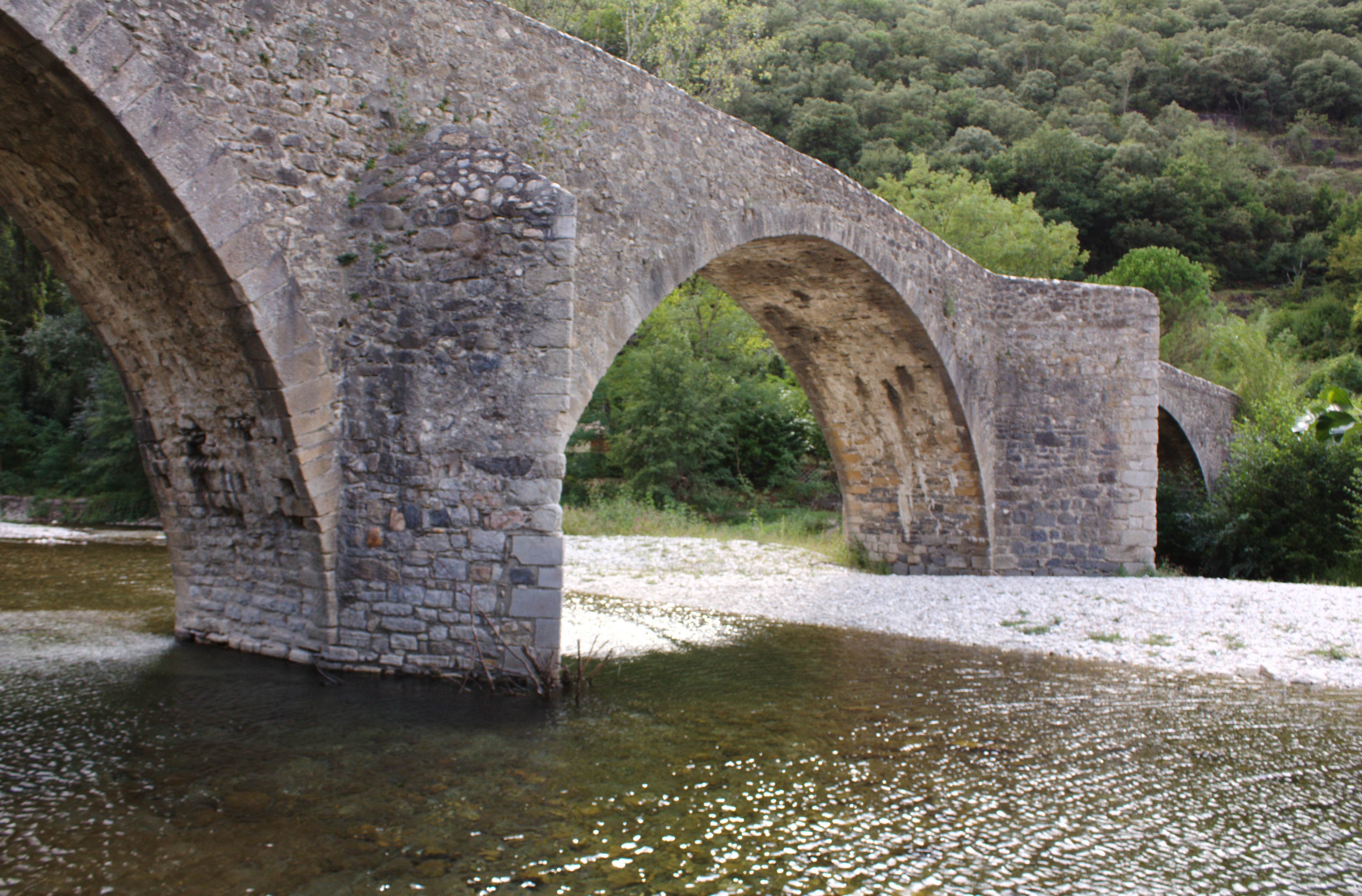 Up and downstream, a point shaped butress assist the bridge piers to strengthen their stability. The first one is especially important because it provided a location for the bridge's guard.